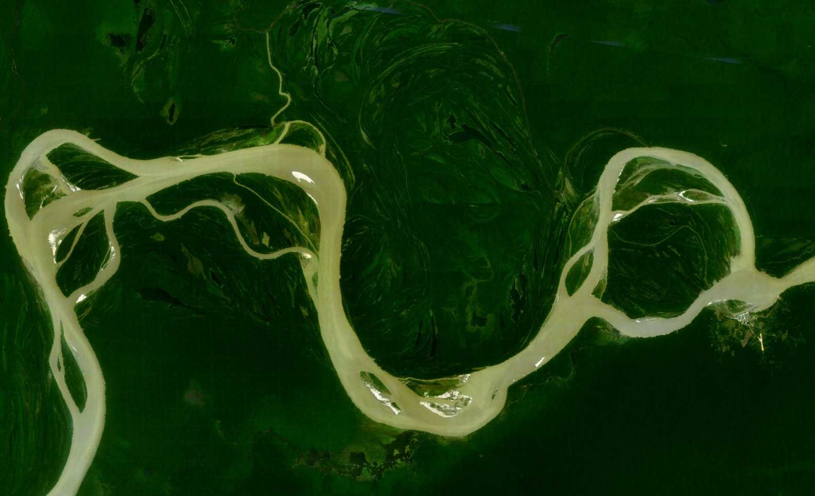 Amazon River, near to Fonte Boa (Amazonas). Flooded areas, minor channel and lagoons are observed near at the main channel of the river.